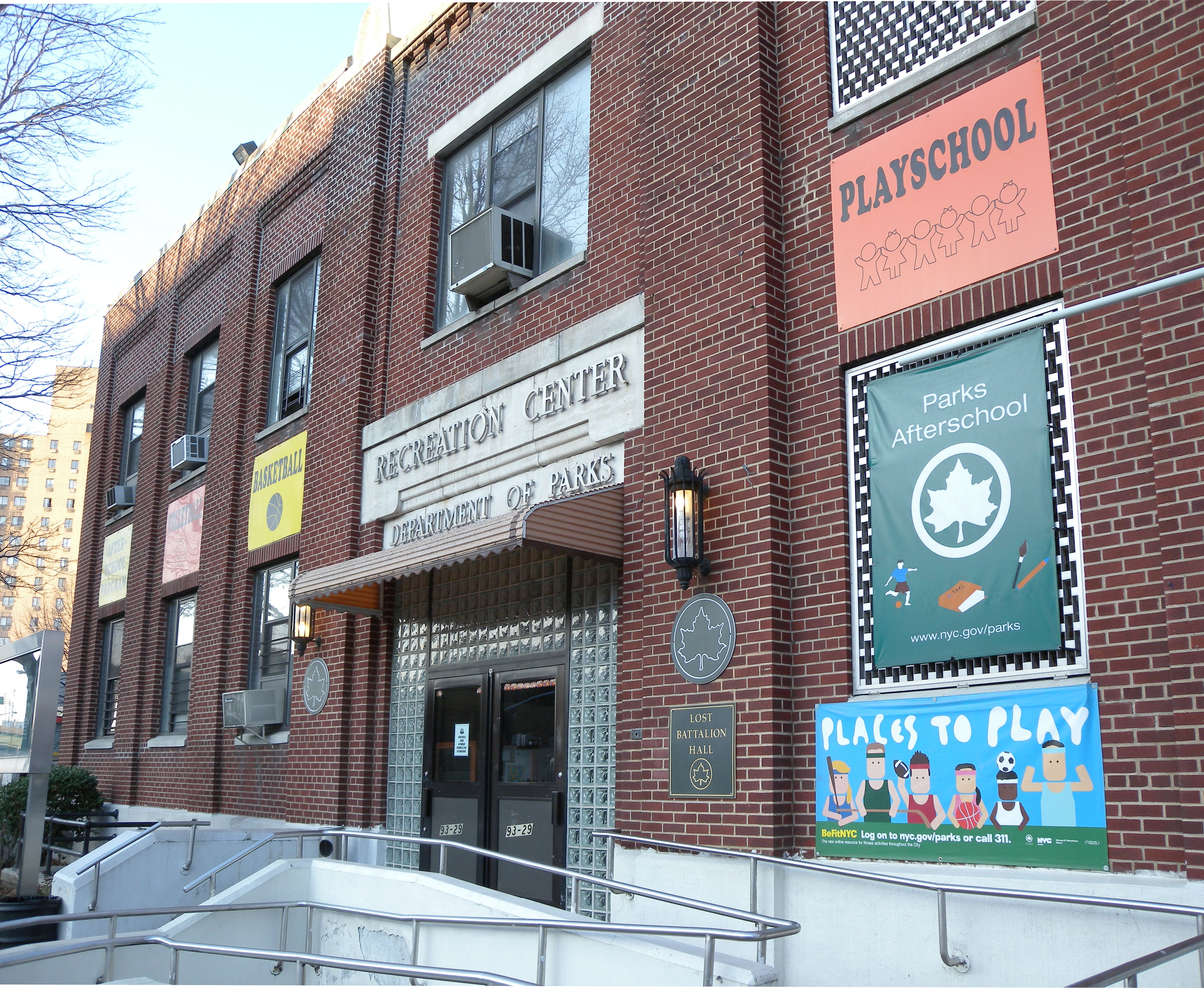 Looking north from Queens Boulevard, at Lost Battalion Hall operated by NYC Parks Dept at 93-29 Queens Boulevard in Rego Park, northwest of ATT building, on a sunny late afternoon.